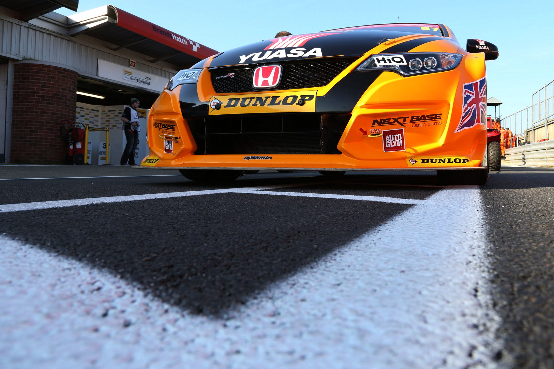 Nextbase is a sponsor of Halfords Yuasa Racing for the 2016 British Touring Car Championship.